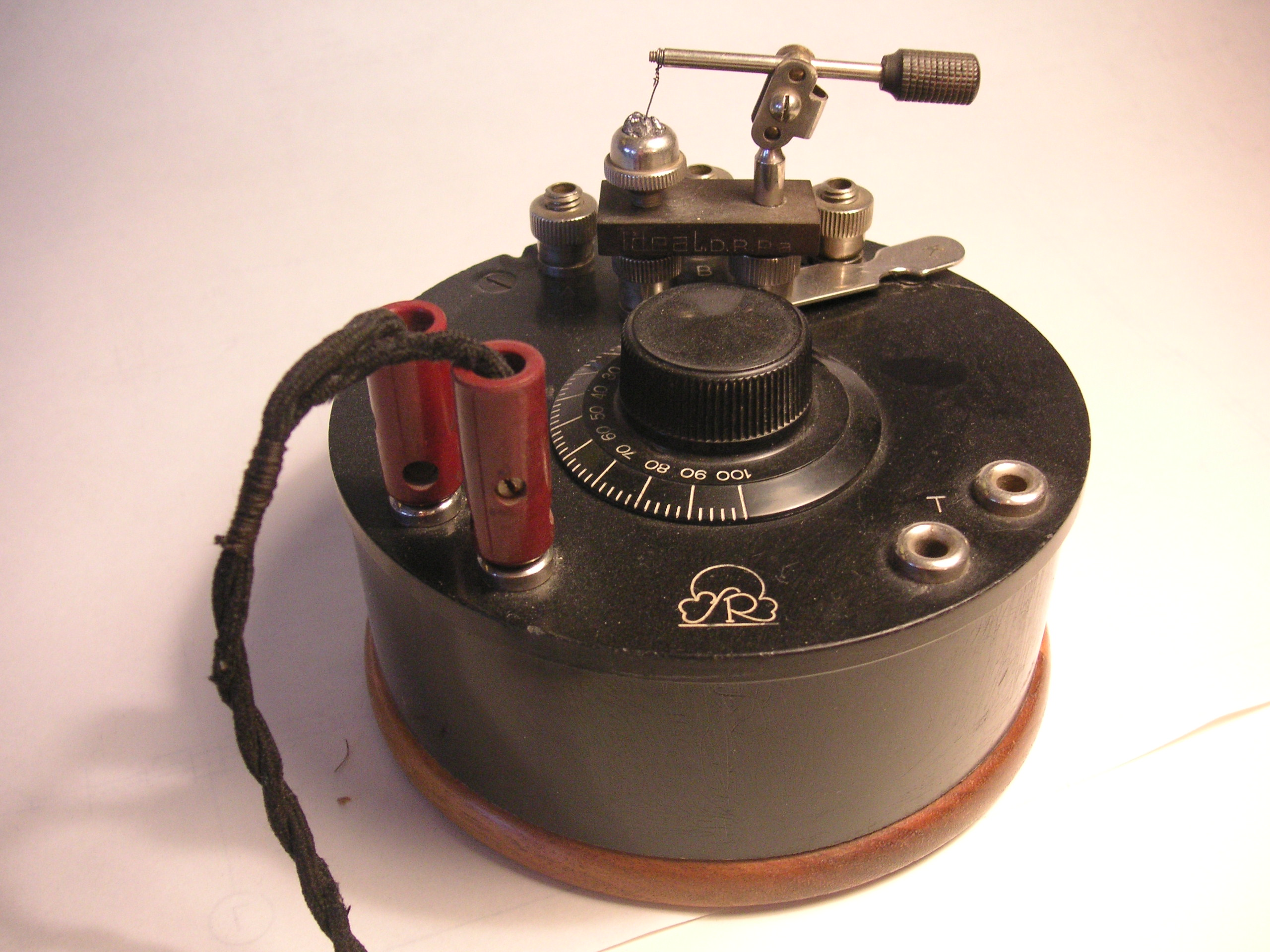 Swedish crystal radio. The device at top is the galena cat's whisker detector. The wires go to headphones.